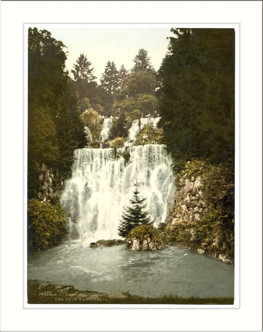 The New Waterfall Wilhelmshohe Cassel (i.e. Kassel) Hesse-Nassau Germany